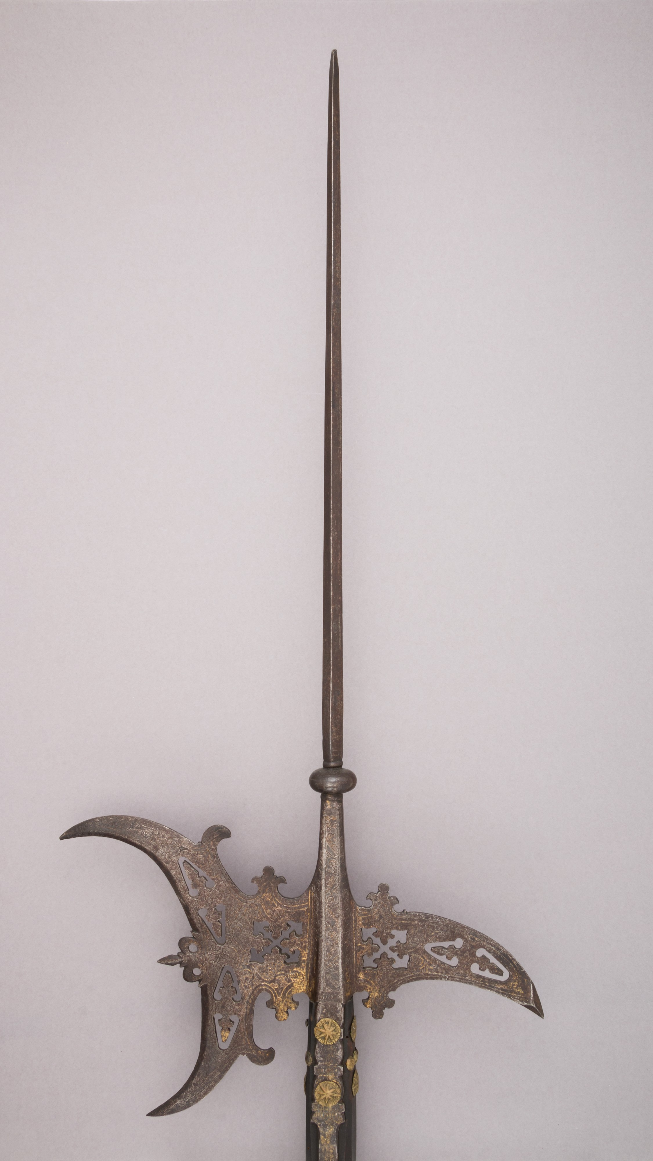 Italian; Halberd; Shafted Weapons